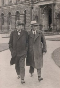 photo of composer and conducter.